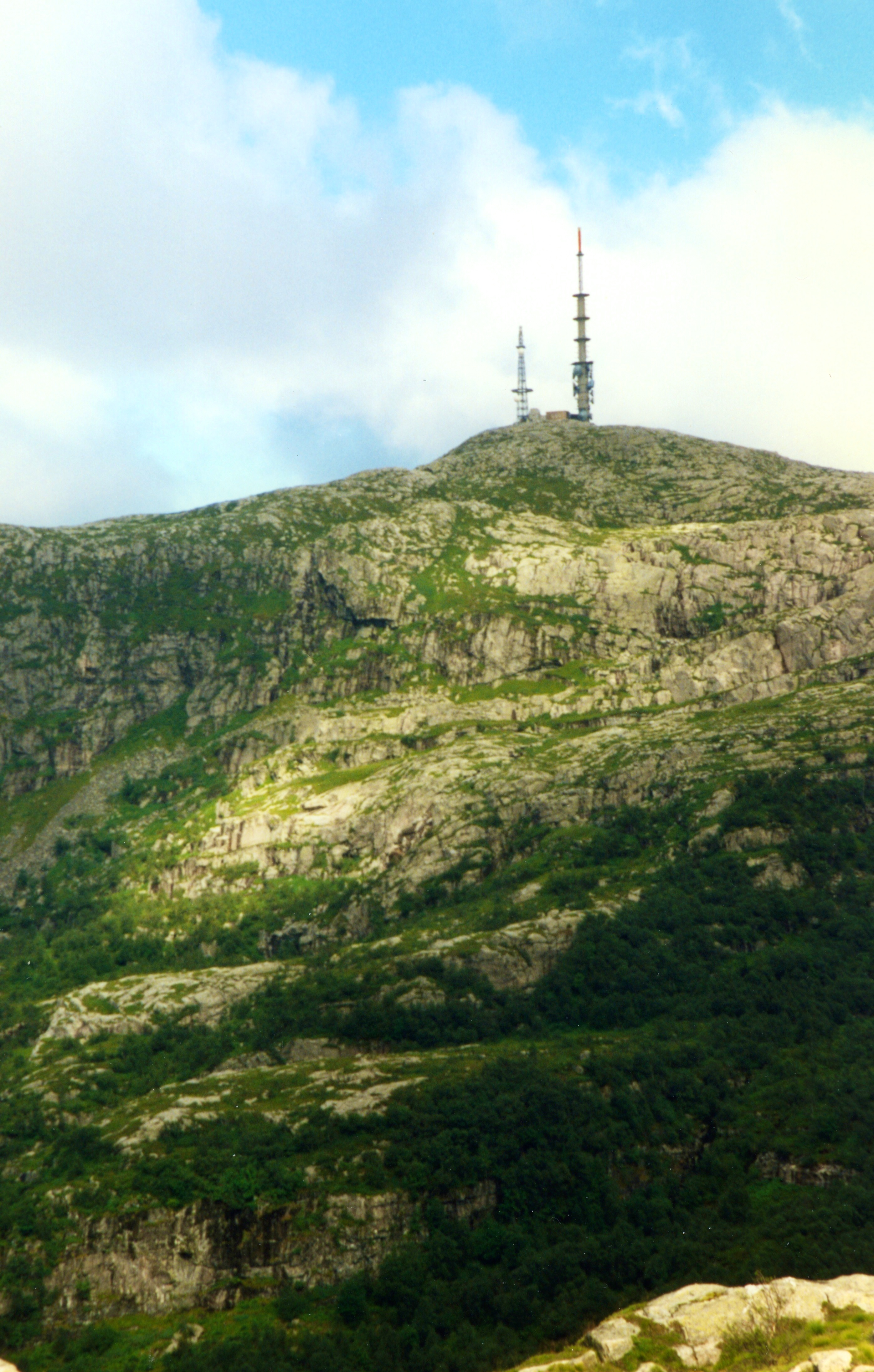 Gulen municipality, Norway.